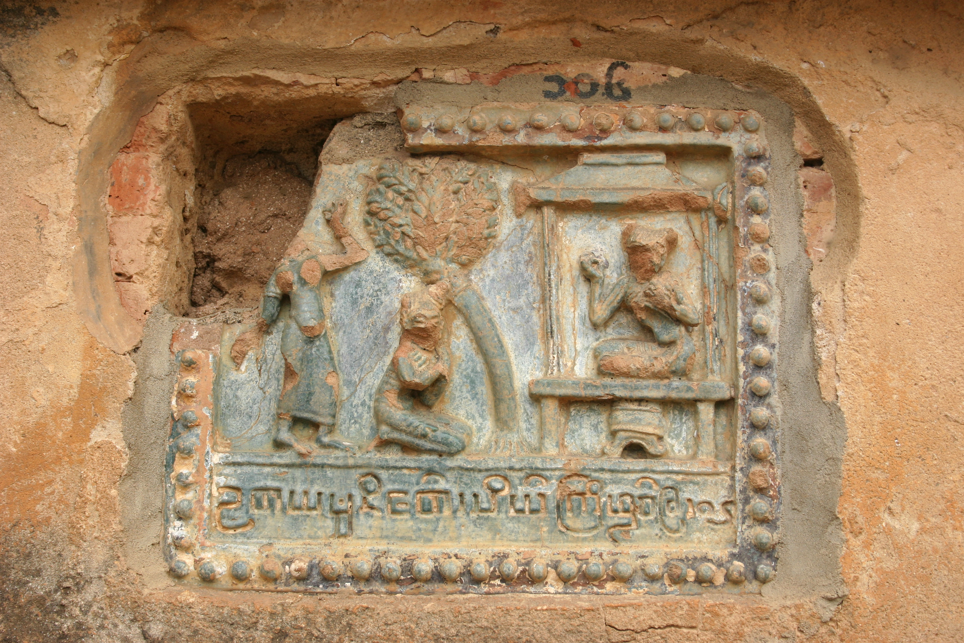 Mingalazedi temple, Bagan, Myanmar.